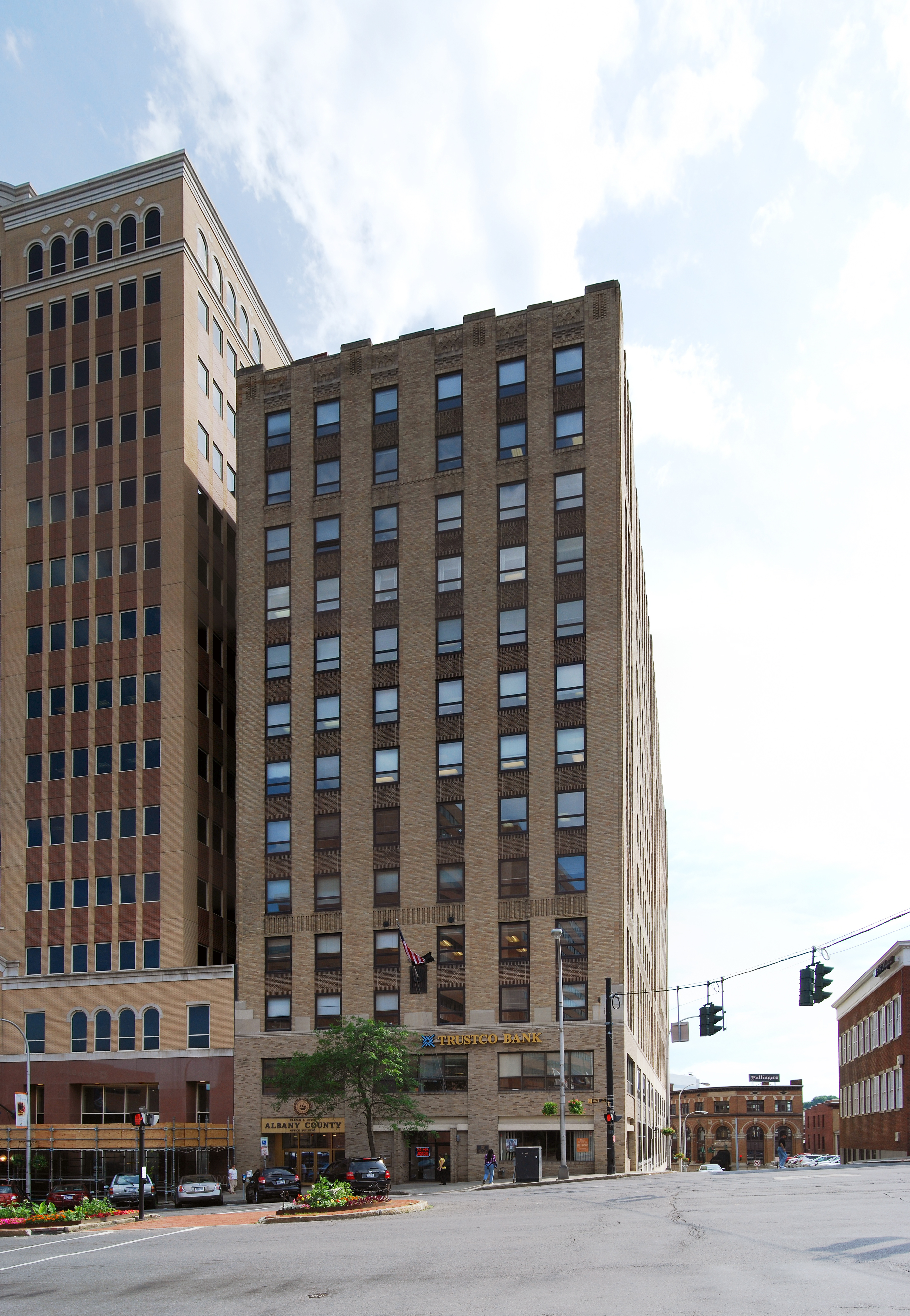 Albany County Government Building on State Street in Albany, New York, United States